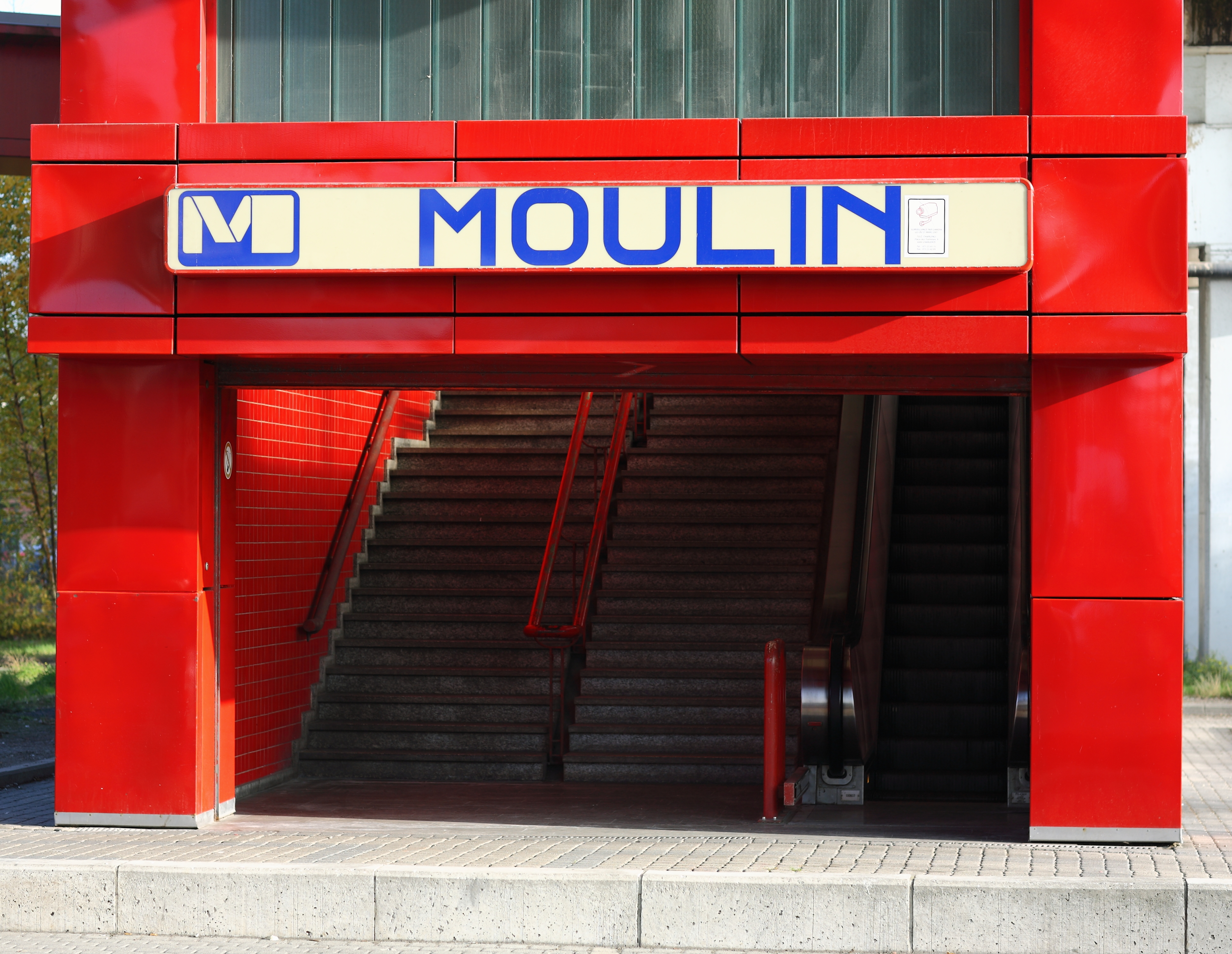 Moulin metro station, part of the Charleroi metro network. The station is located at the border between Marchienne-au-Pont and Monceau-sur-Sambre